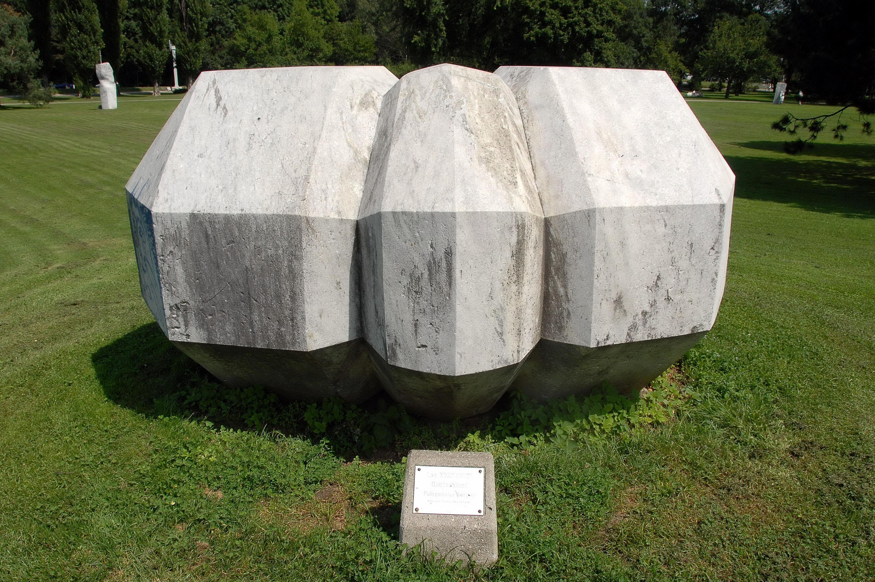 Sculpture "Polygonal body", created from Krastal marble by the German sculptor Leo Kornbrust, set up in the Europapark on the eastern lakeside of the Woerther See in the district Waidmannsdorf of Klagenfurt, Carinthia, Austria